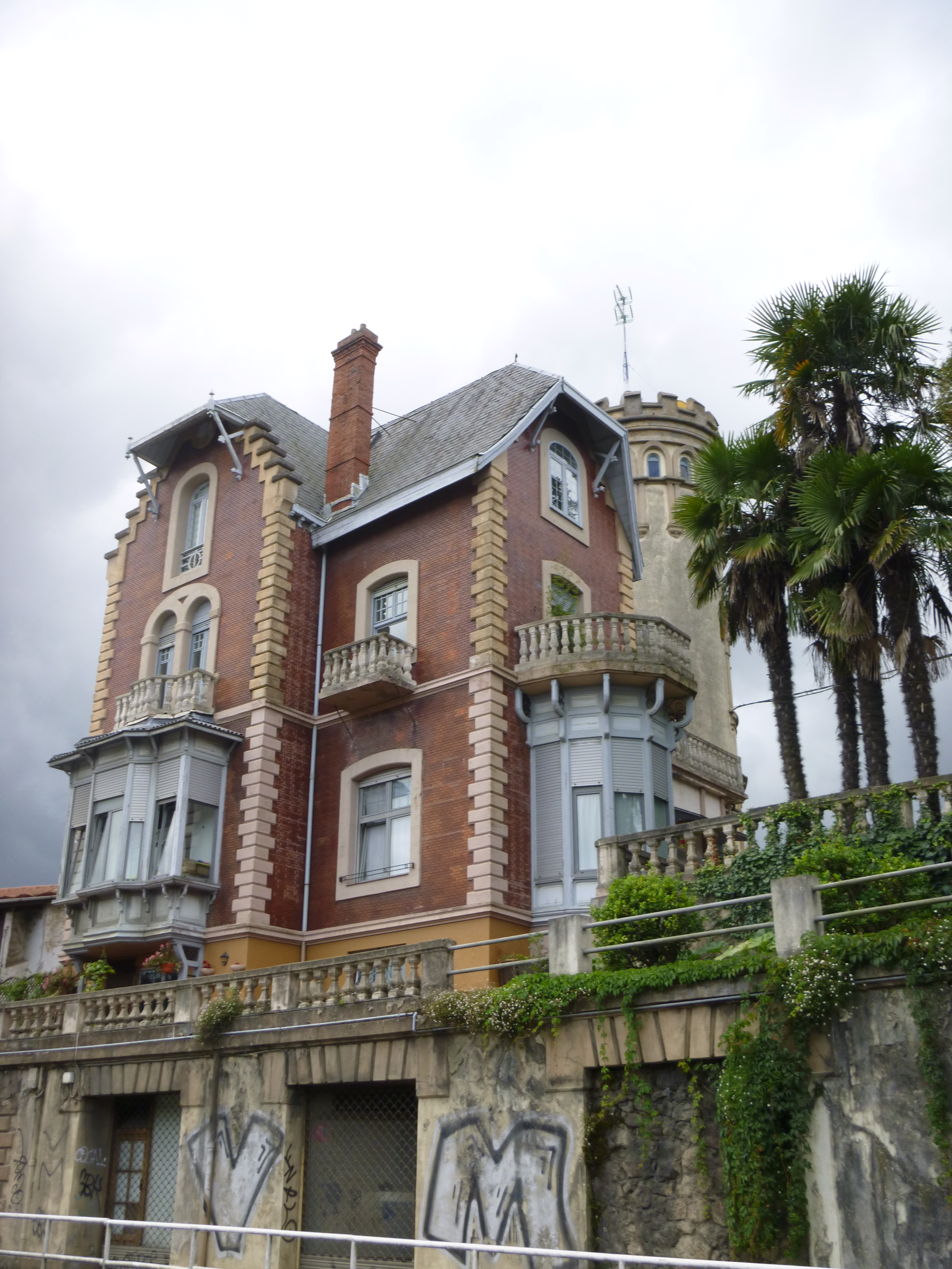 Historical house in Martutene